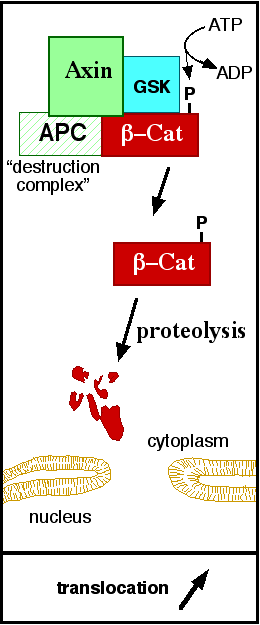 I (John Schmidt) made this diagram for Wikipedia. Summary I (John Schmidt) made this diagram for Wikipedia.